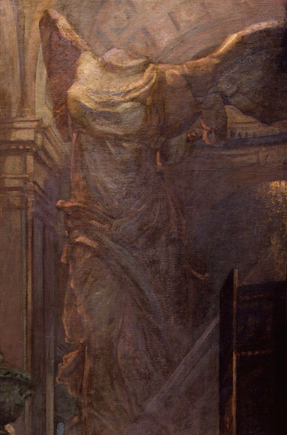 Detail: Sculpture of Nike.